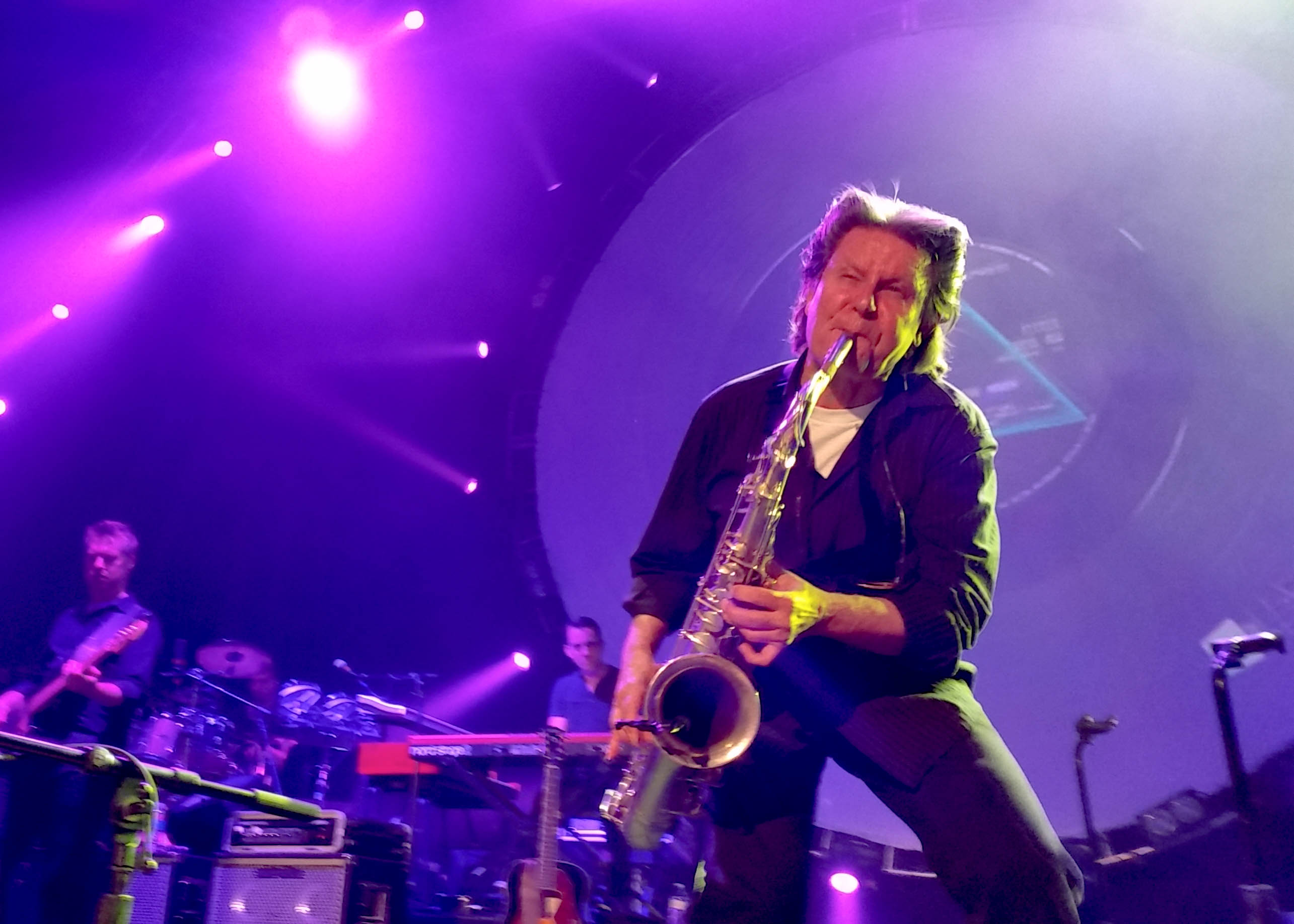 Scott Page, performing at The Orpheum Theatre in Los Angeles, California on June 17, 2015, as a special guest of Brit Floyd.